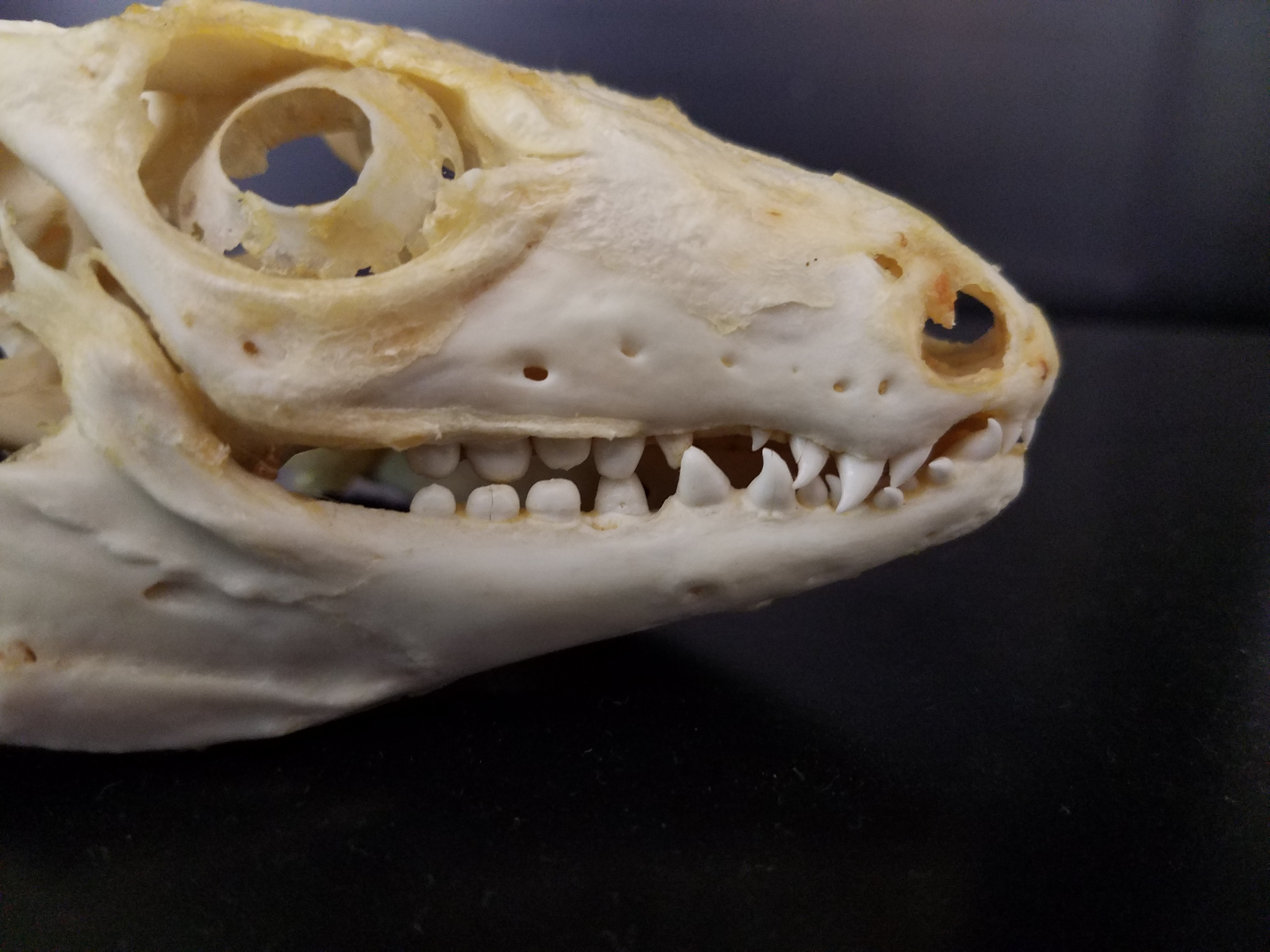 Red tegu (Tupinambis rufescens) skull, showing variable dentition